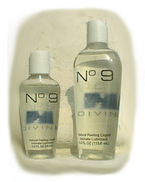 Created by Divine Corporation and released to public domain in support of Wiki entry.